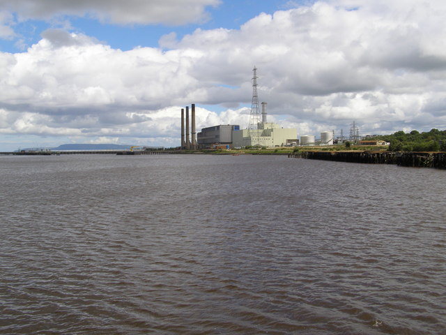 Coolkeeragh Power Station Photograph taken from the River Foyle, close to where the German U boat fleet surrendered during WW2.